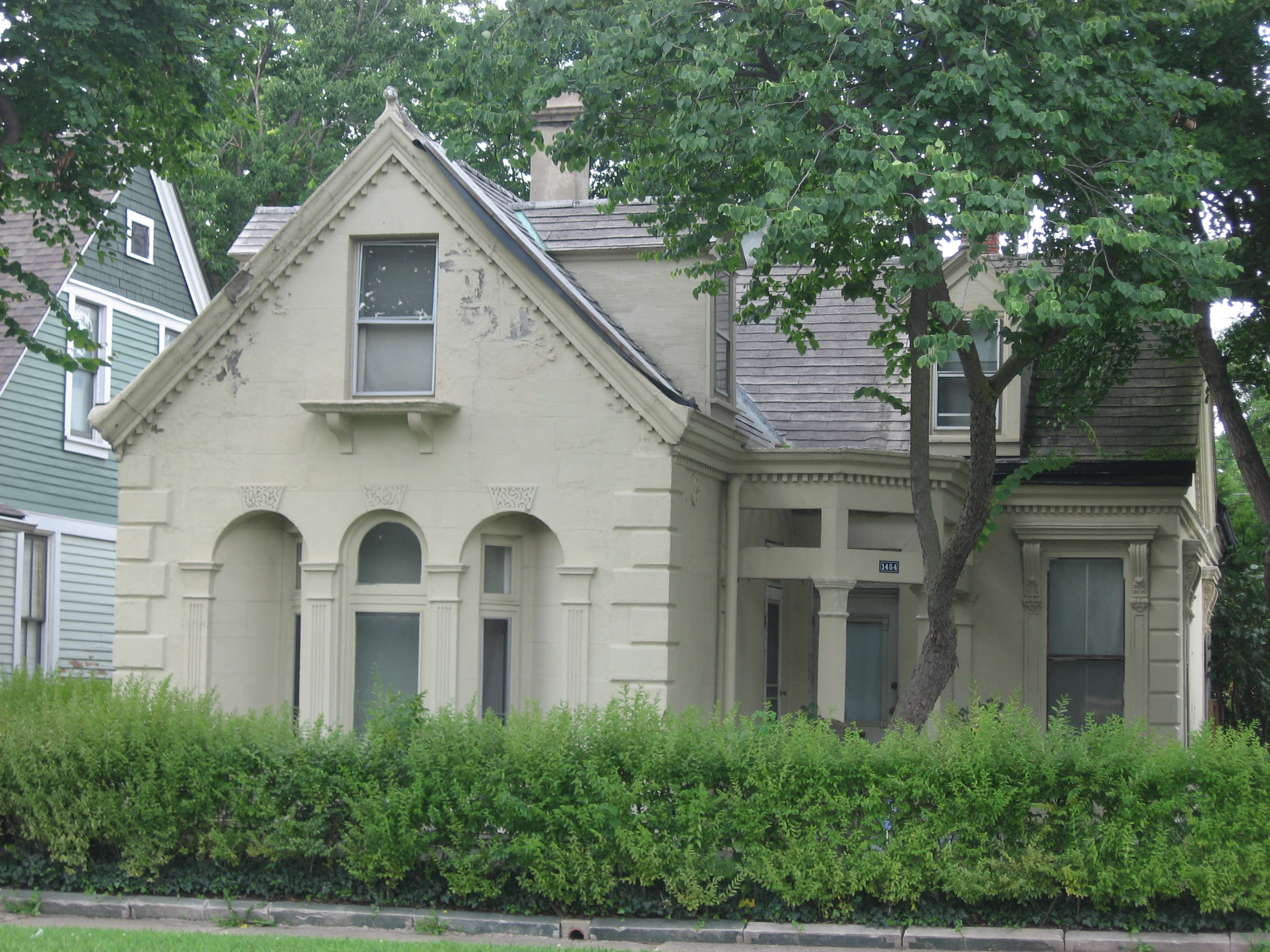 Front of the Prosser House, located at 1454 E. Tenth Street in Indianapolis, Indiana, United States. Built in 1886, it is listed on the National Register of Historic Places.